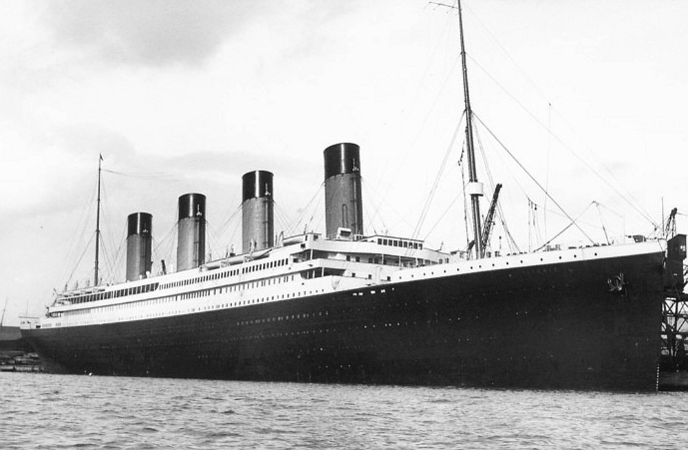 RMS Titanic at Southampton